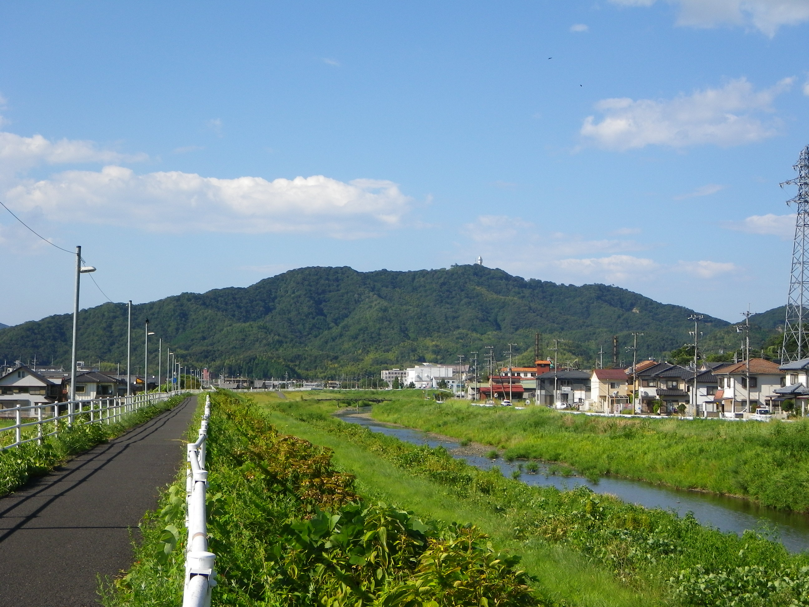 Mt.Gorogatake as seen from the south by west in Maizuru, Kyoto Prefectutre, Japan.